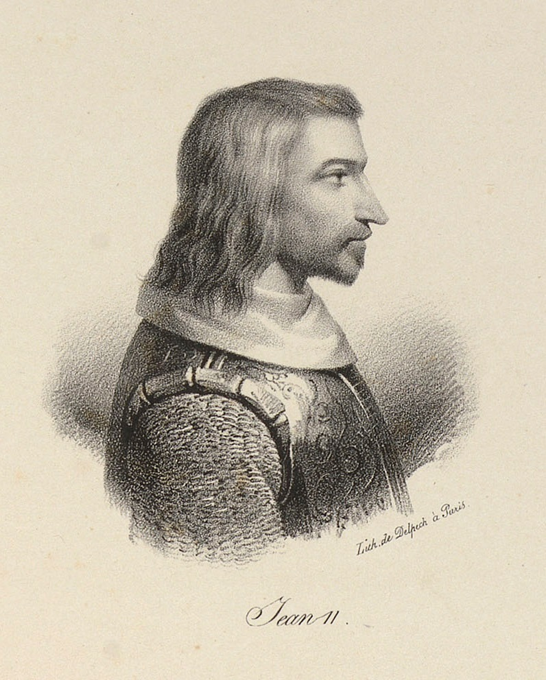 John II of France (1319-1364)